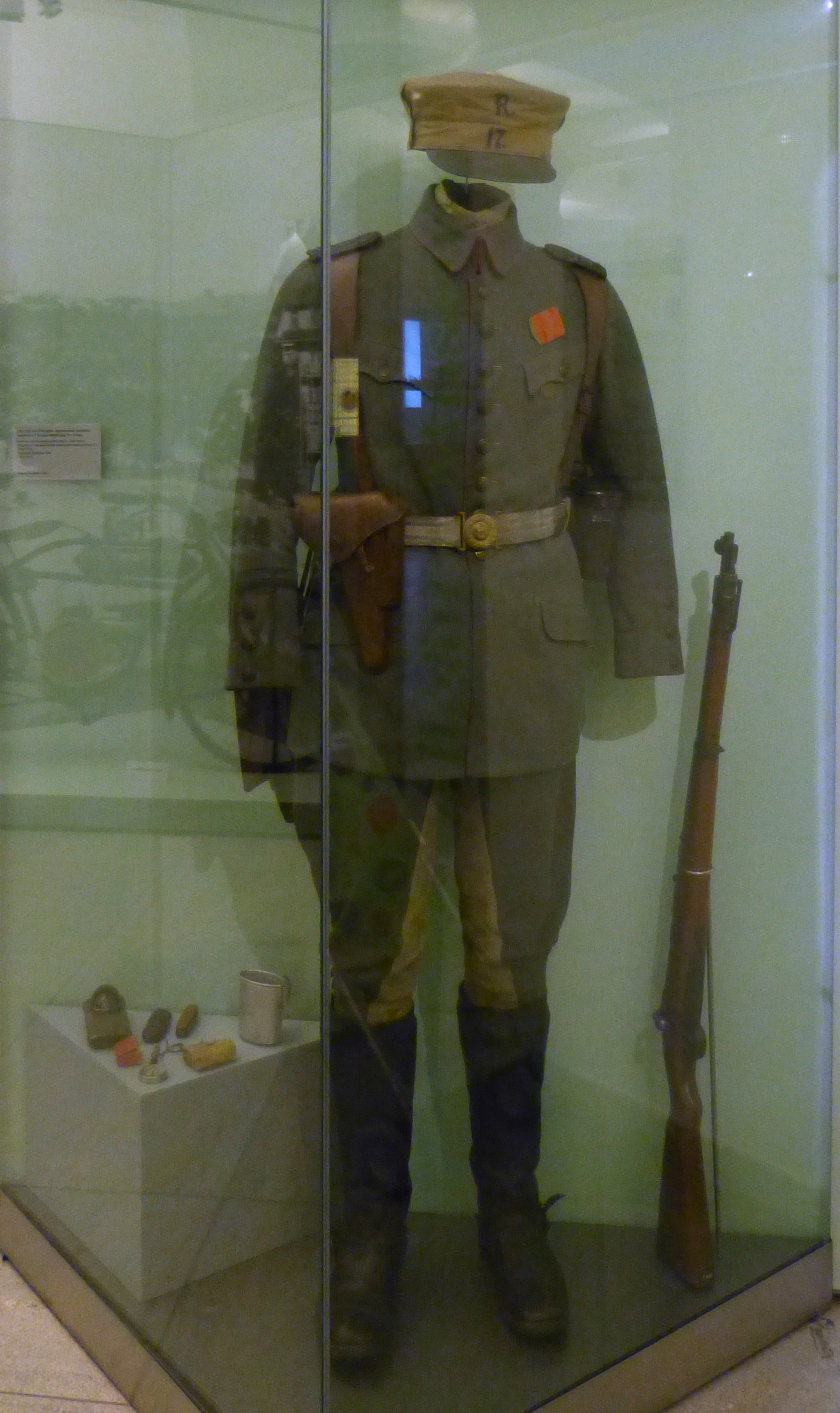 Uniform and equipment of Dr Otto Merkt, Captain of the Bavarian auxiliary infantry regiment 17 from 1916. Besides a Karabiner 98a. AllgäuMuseum in Kempten, Bavaria (Germany).